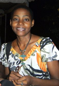 Christina Goh at Gros-Morne podium Martinique